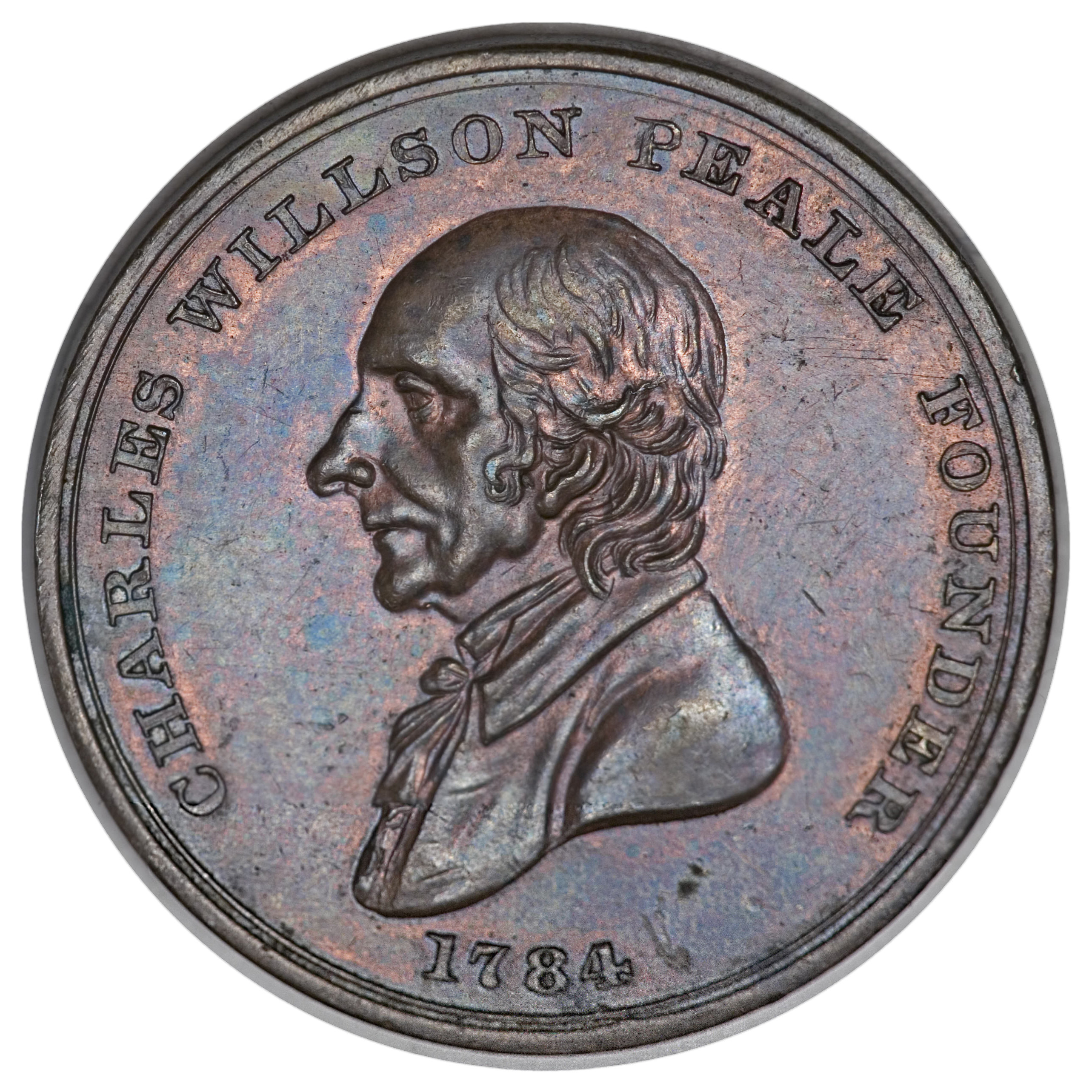 1821 Philadelphia Peale Museum Token (obv) (427-81595)